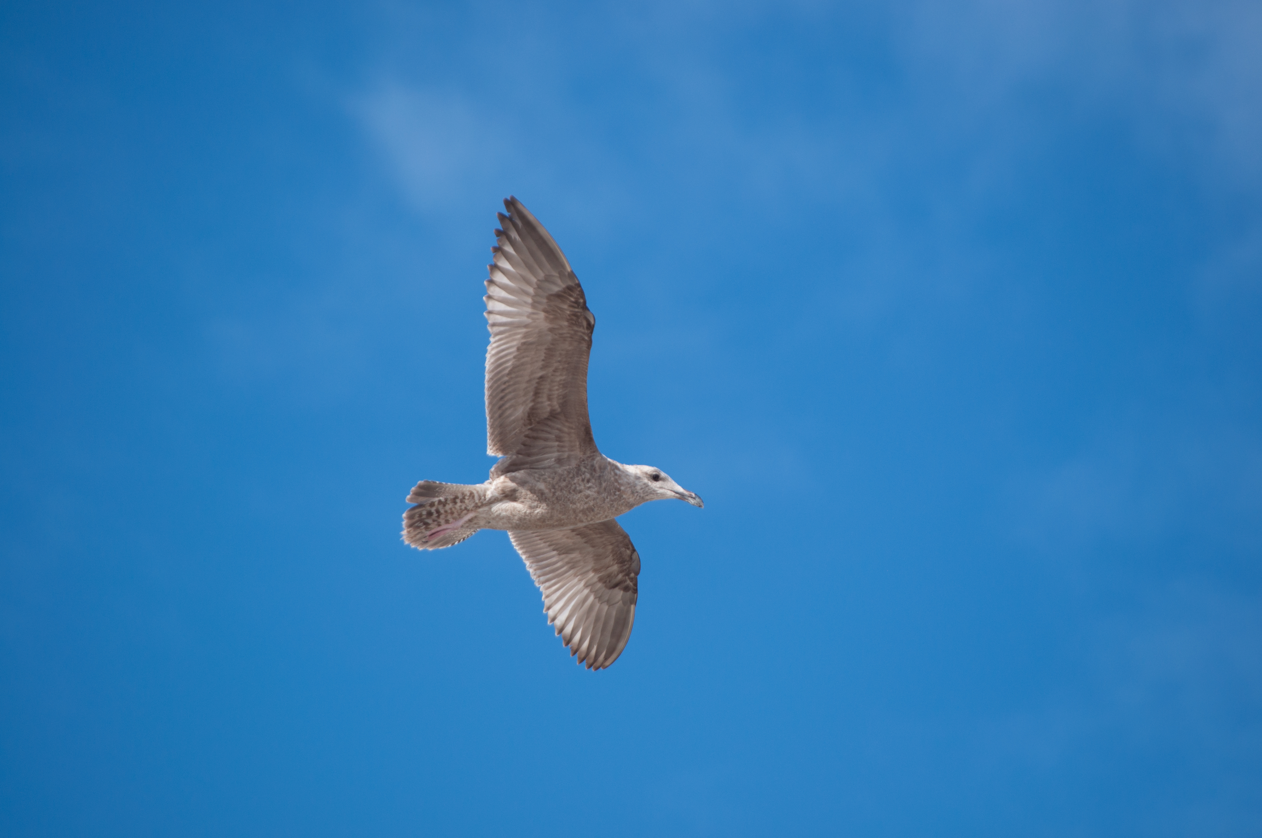 A seagull flying